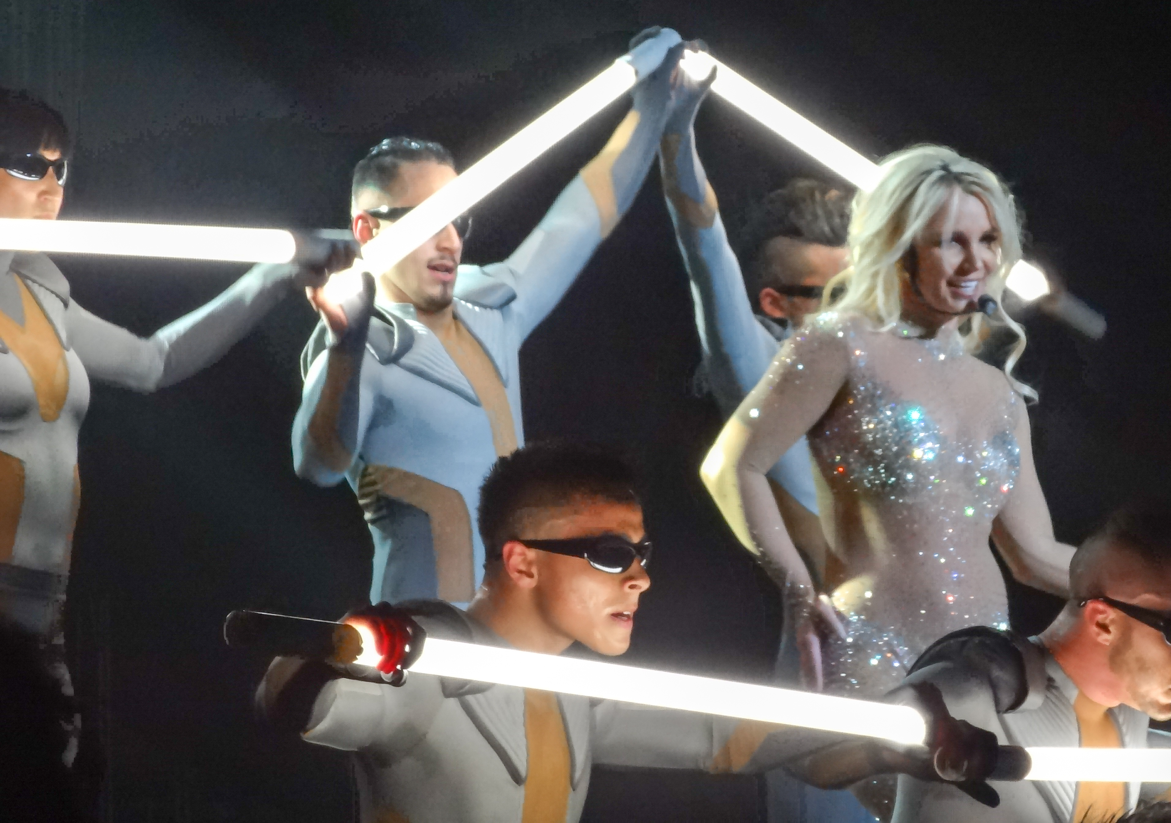 3 Las Vegas